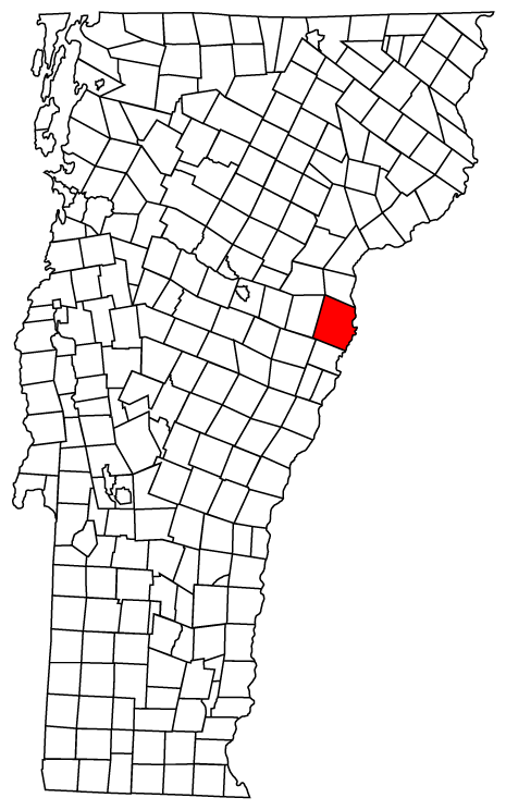 Description: Map of Vermont towns with Newbury highlighted Source: Map created by Jared C. Benedict on 26 March 2004. Copyright: © Jared C. Benedict.